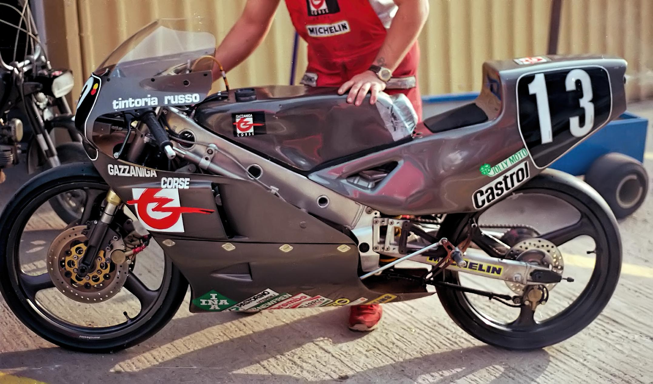 The Rotax of Corrado Catalano, used in the 125cc class, being pushed away at the 1989 British Grand Prix.